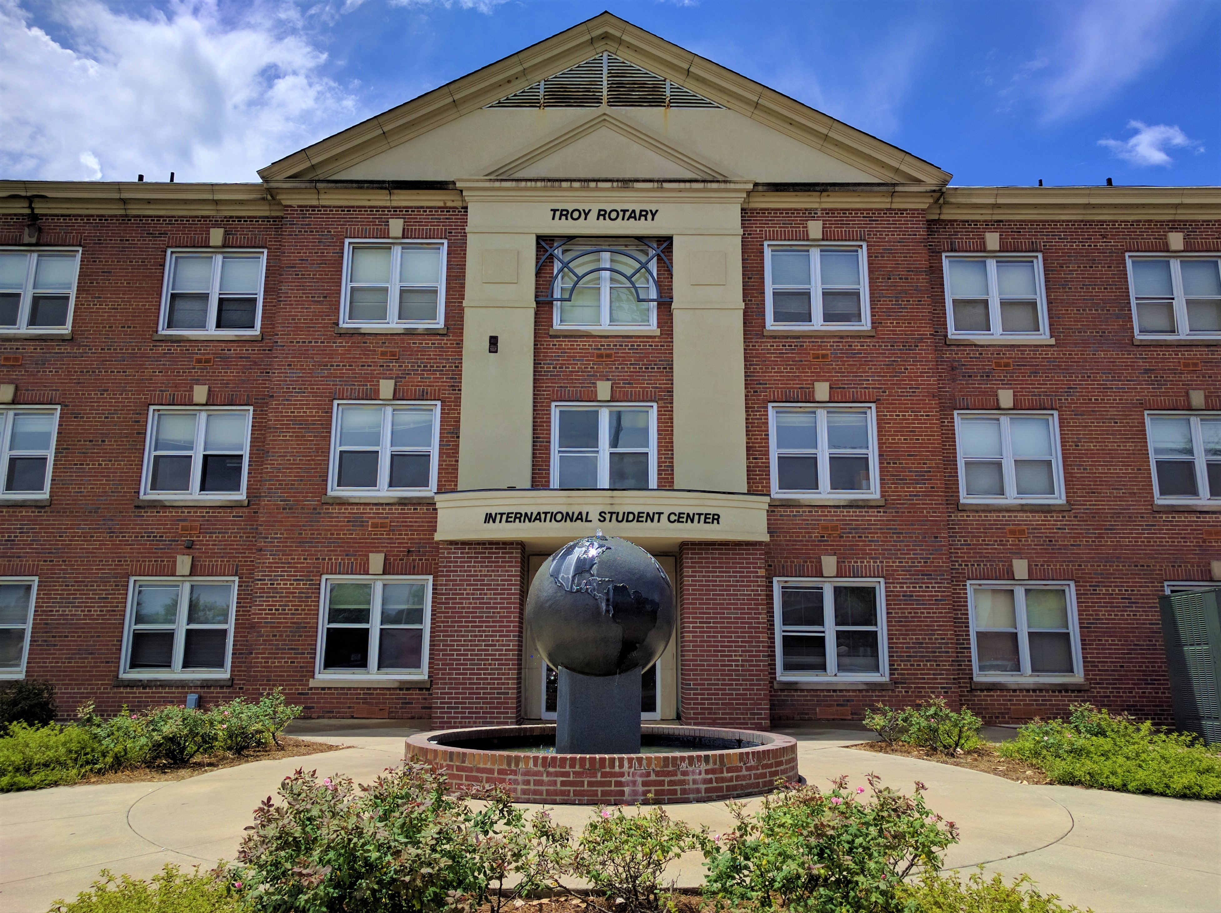 The international student center/dorms at Troy.